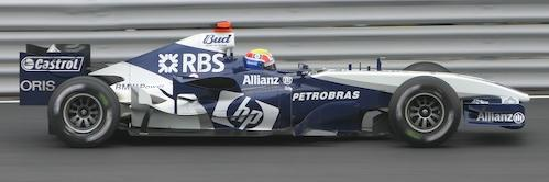 Mark Webber driving for Williams at the 2005 Canadian Grand Prix.